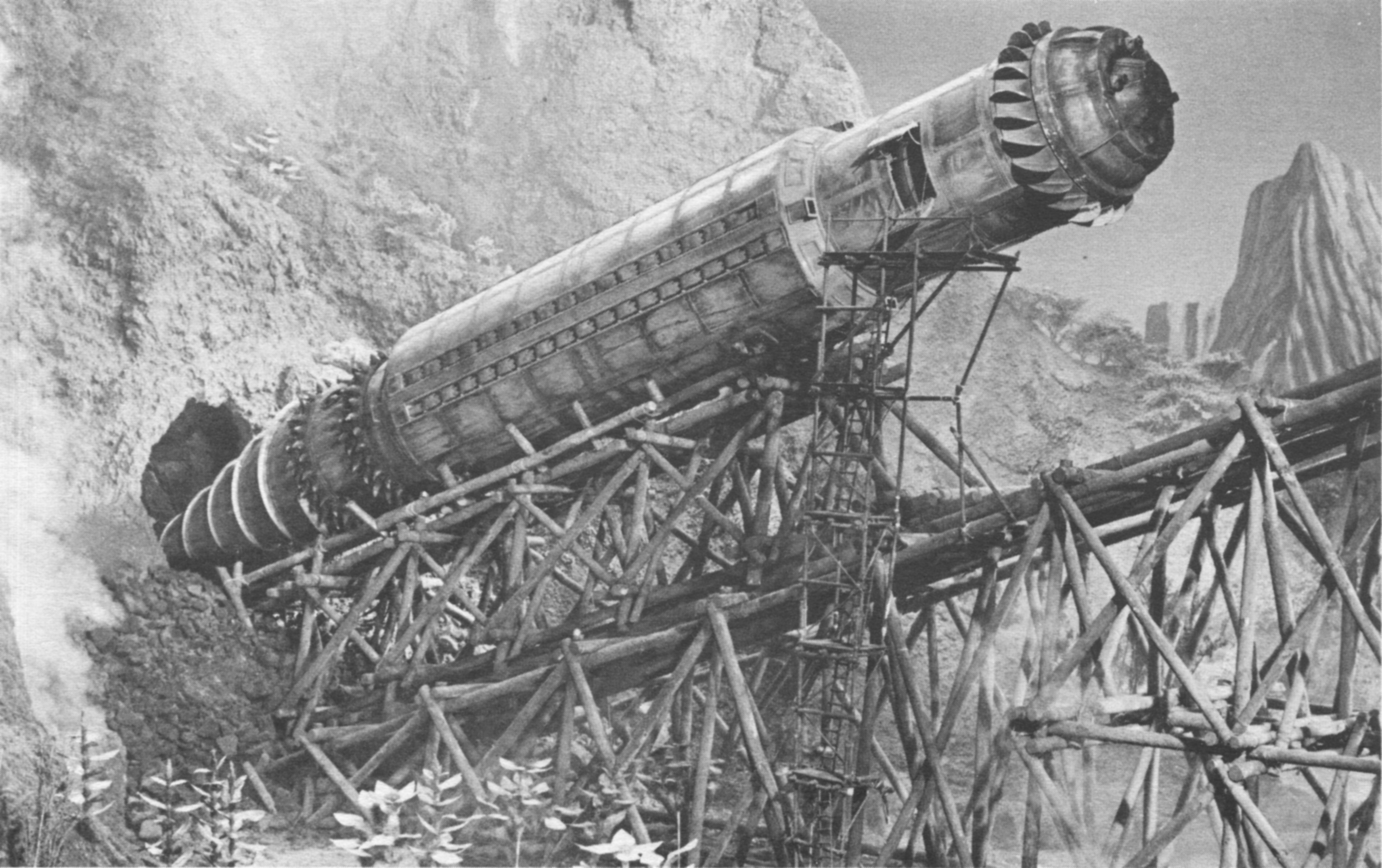 A picture from the 1976 American International Film At the Earth's Core, based off the book by Edgar Rice Burroughs, showing the digging machine used to get to the center of the Earth.